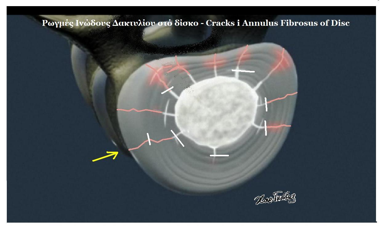 Cracks i annulus fibrosus of disc